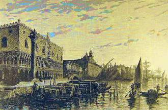 Painting of Venice by Clara Montalba